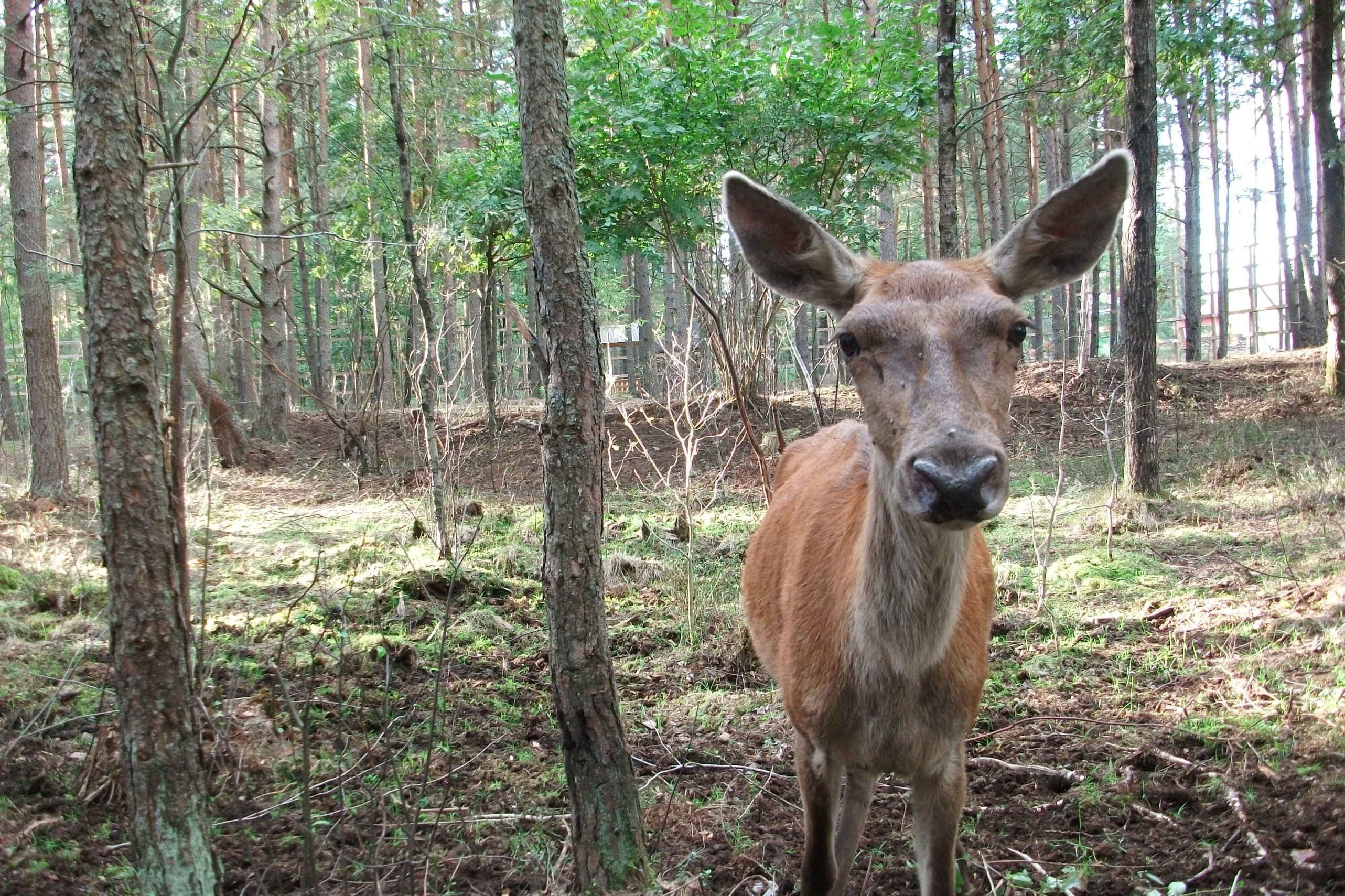 Red Deer - Doe